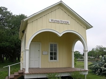 "Waiting Station"; a historical building located in Sabinal, Texas, USA